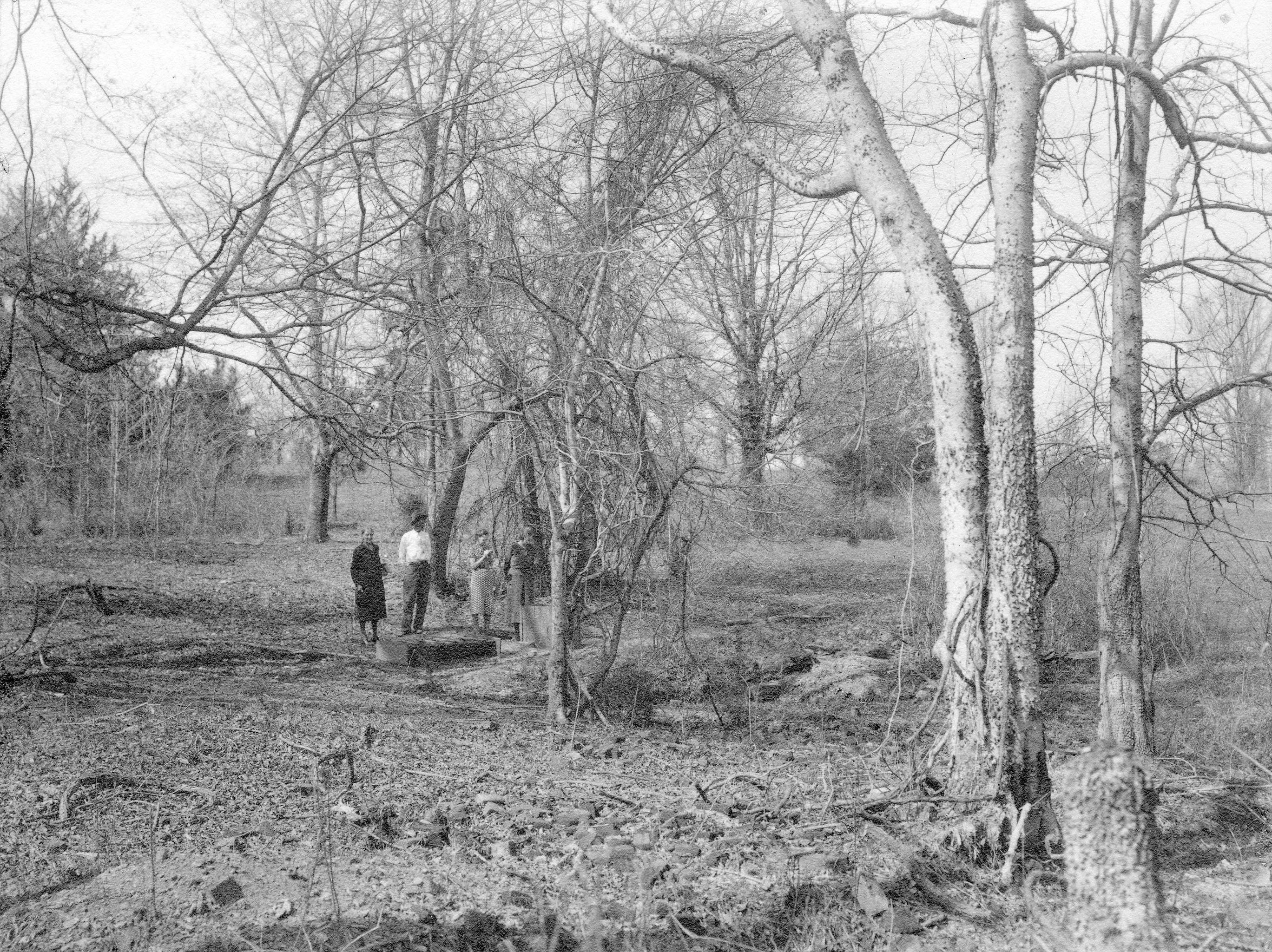 Shackleford Spring, Cannonsburg, Jefferson County, Mississippi. At this location General Andrew Jackson's weary troops camped and refreshed themselves while marching against the British during the War of 1812. Collection: Works Progress Administration Scrapbooks, 1936-1941 Call number: Series 443 System ID: 73473. Link to the catalog Pictorial History of South Mississippi. Please see our profile page for information on ordering. Scanned as TIFF in 2013/05/13 by MDAH. Credit: Courtesy of the Mississippi Department of Archives and History